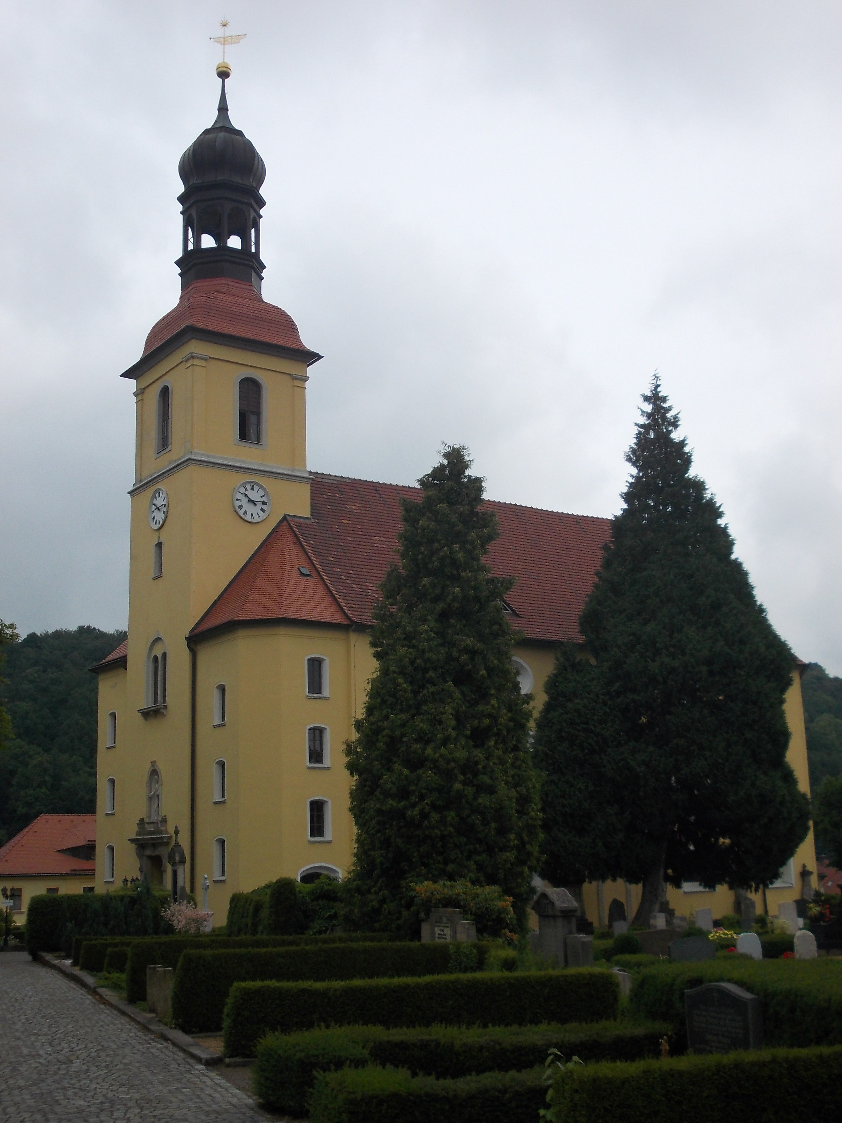 Lutheran church in Grossschönau (Görlitz district, Saxony)